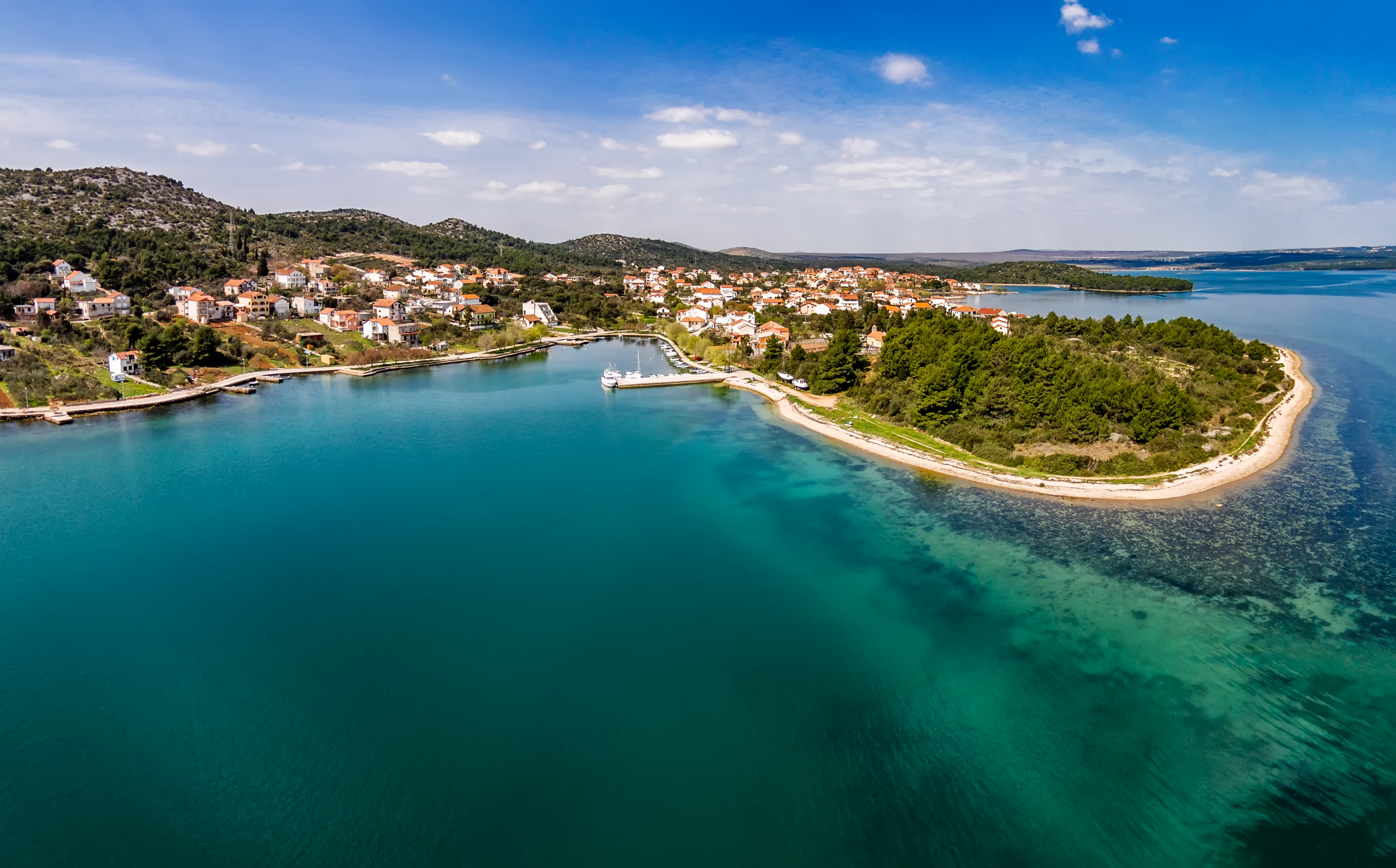 Aerial photo of Raslina in Croatia